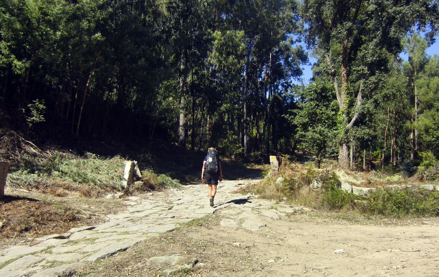 THe Caminho Português near Coimbra